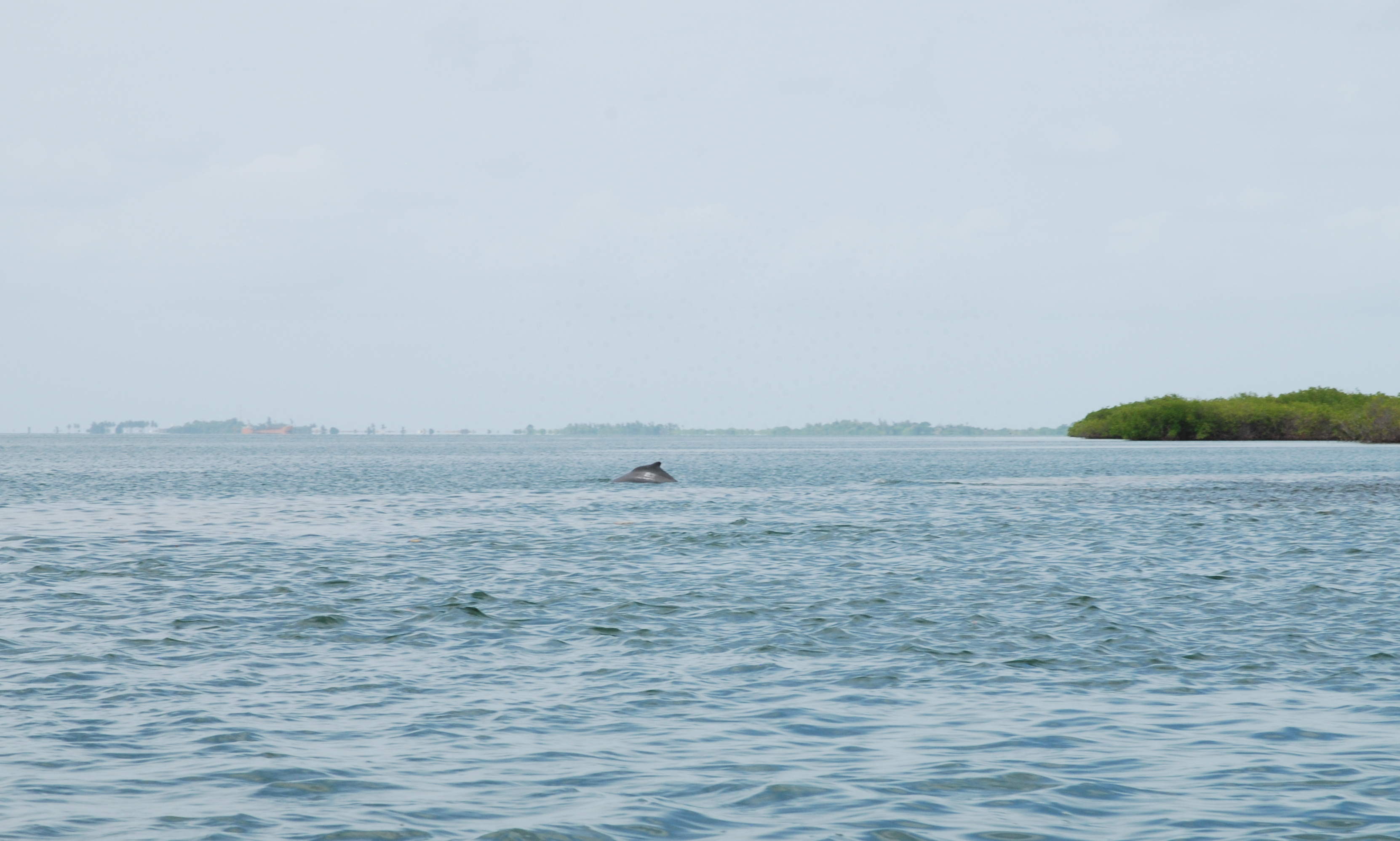 Atlantic humpbacked dolphin photographed in september 2017 in the Saloum delta (Senegal)